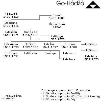 Family tree of Hōjō Sōun